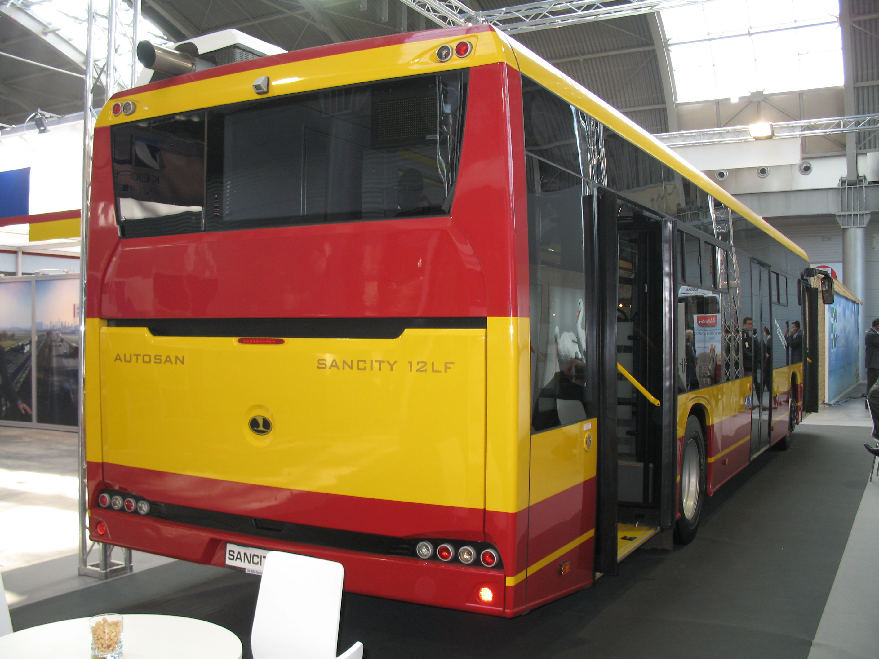 Autosan Sancity 12 LF bus in Kielce, Poland. Built 2010. Transexpo 2010.